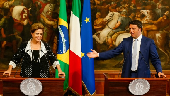 Brazilian president Dilma Rousseff meets Italian prime minister Matteo Renzi during press conference. (Rome - Italy, 07/10/2015)